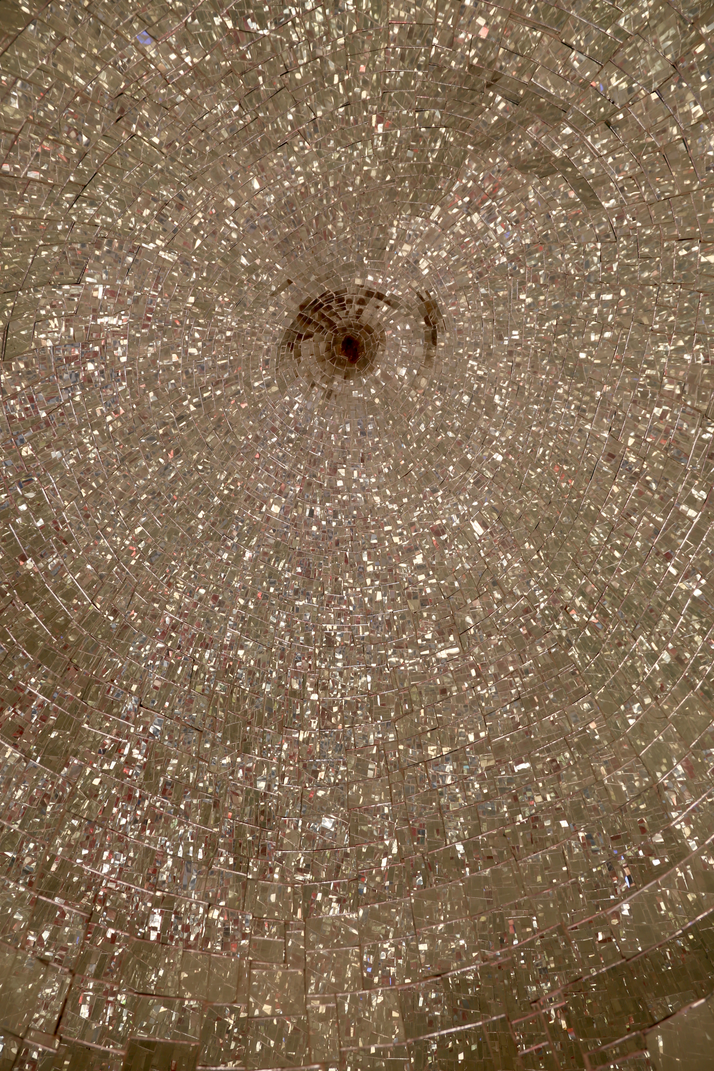 Giardino dei Tarocchi